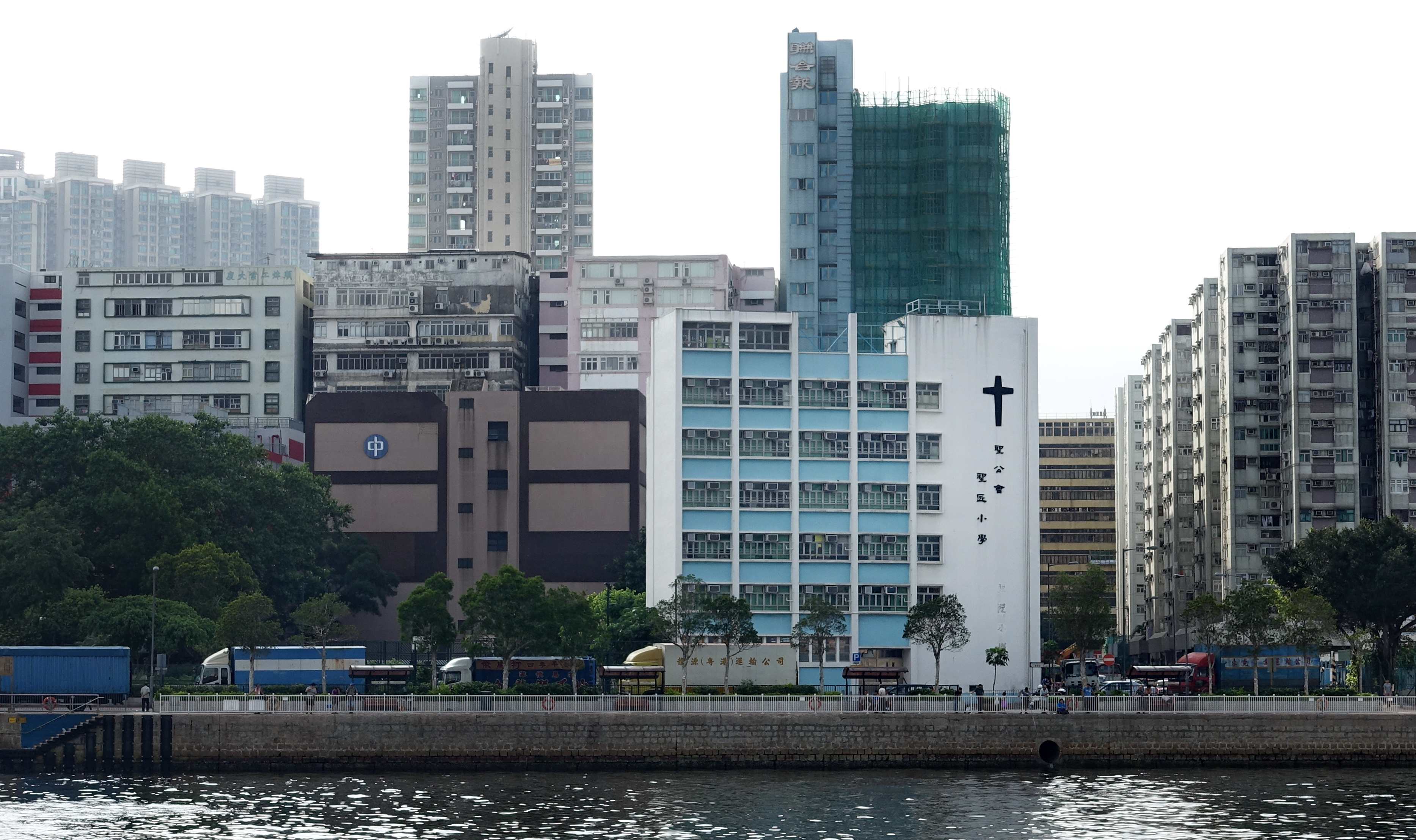 Holy Carpenter Primary School, To Kwa Wan, Kowlooon, Hong Kong.